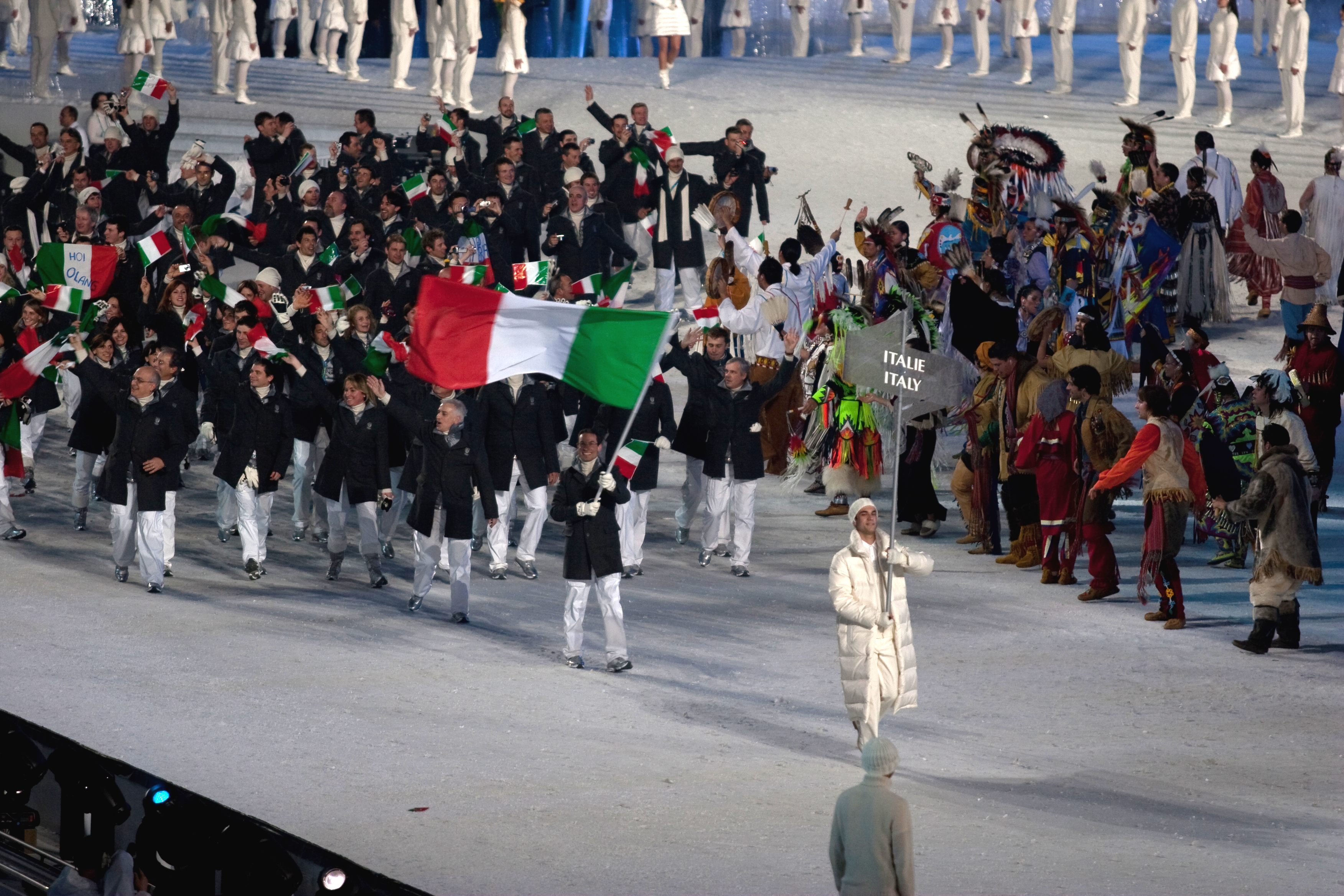 The athletes from Italy entering the stadium at the opening ceremonies of the 2010 Winter Olympics (Giorgio Di Centa is the flagbearer)